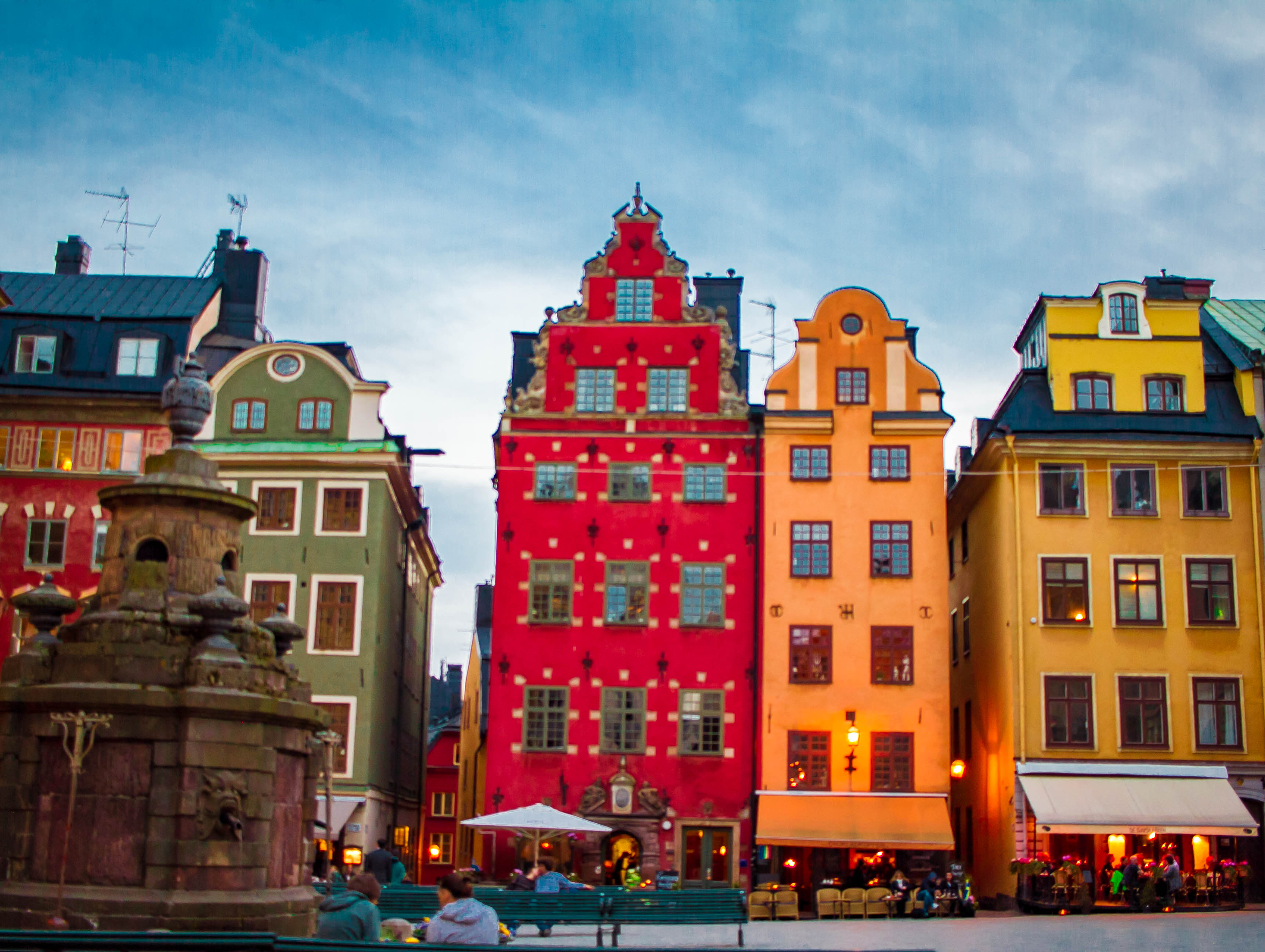 Stortorget, May 2016